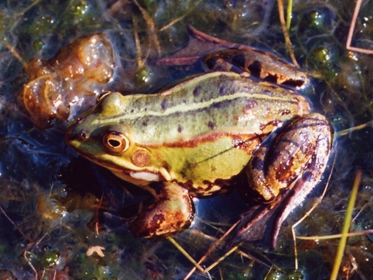 A male Pool Frog (Pelophylax lessonae).